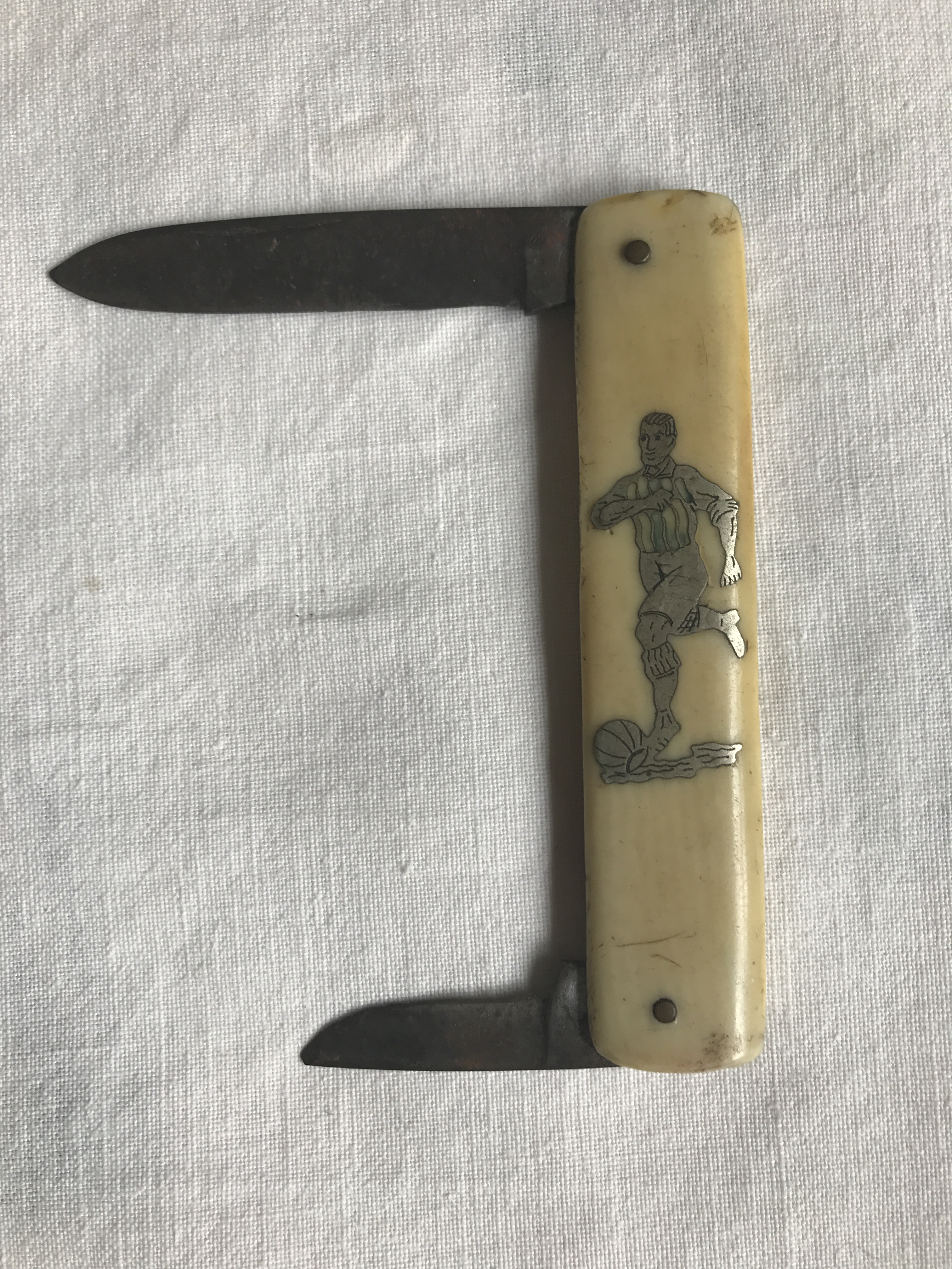 C. Shlieper German Footballer Penknife. Unknown Date.